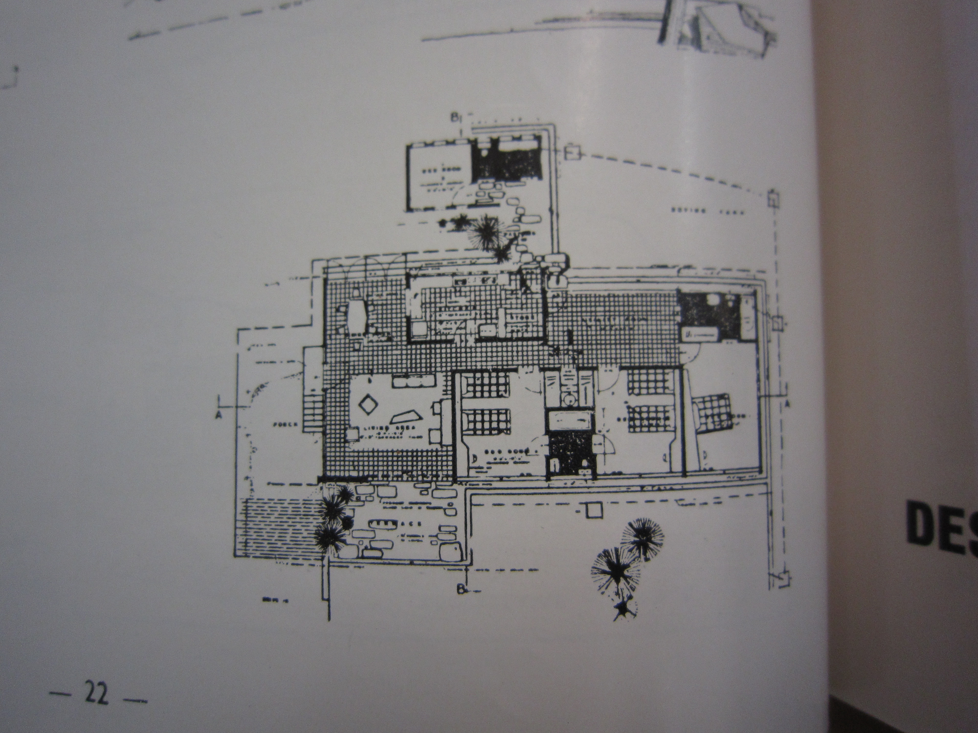 Layout Plan of the Bungalow